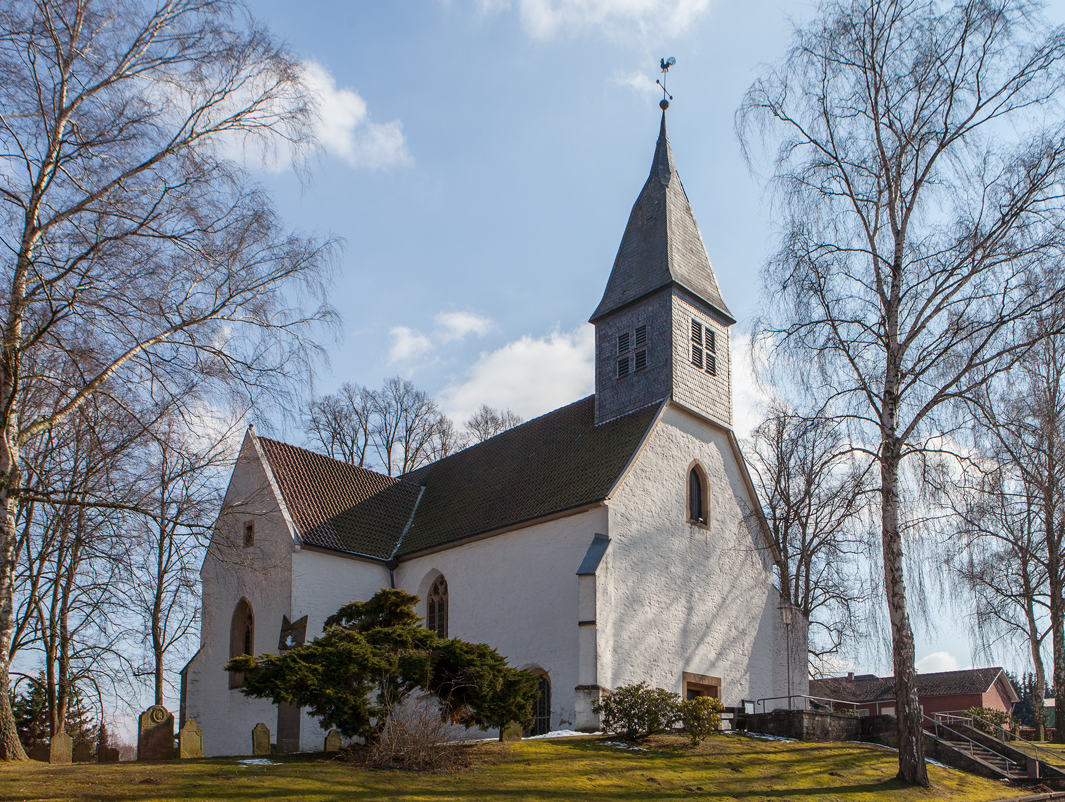 Church in town of Vlotho, District of Herford, North Rhine-Westphalia, Germany. This is a photograph of an architectural monument.